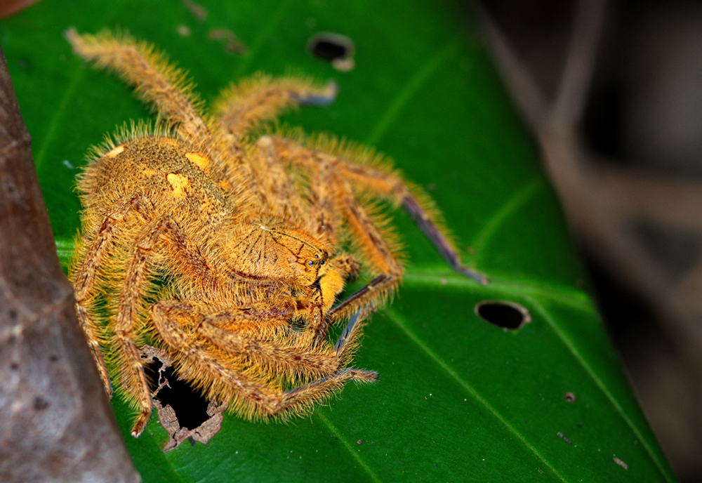 Specimen of Heteropoda davidbowie seen in Singapore